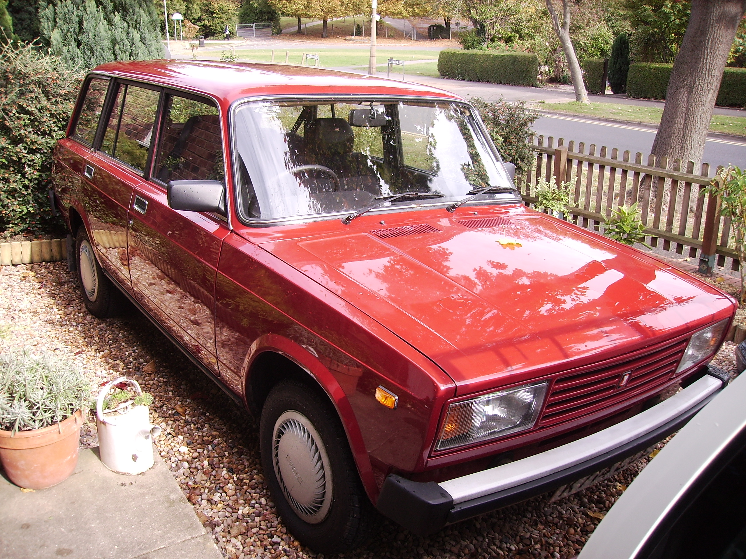 Lada Riva 1.5E Estate with catalytic converter.